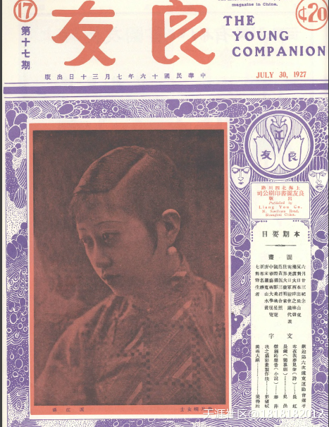 Actress Yan Yuexian (严月娴) on the cover of Liangyou magazine #17.